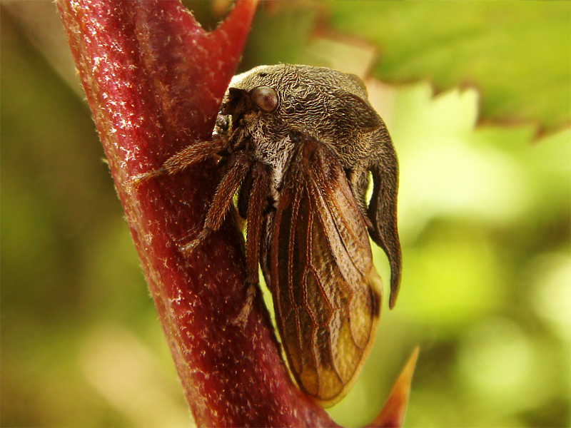 Centrotus cornutus in Ansião, Leiria, Portugal